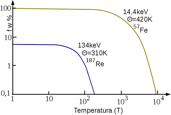 Debye-Waller factor and the Mössbauer effect